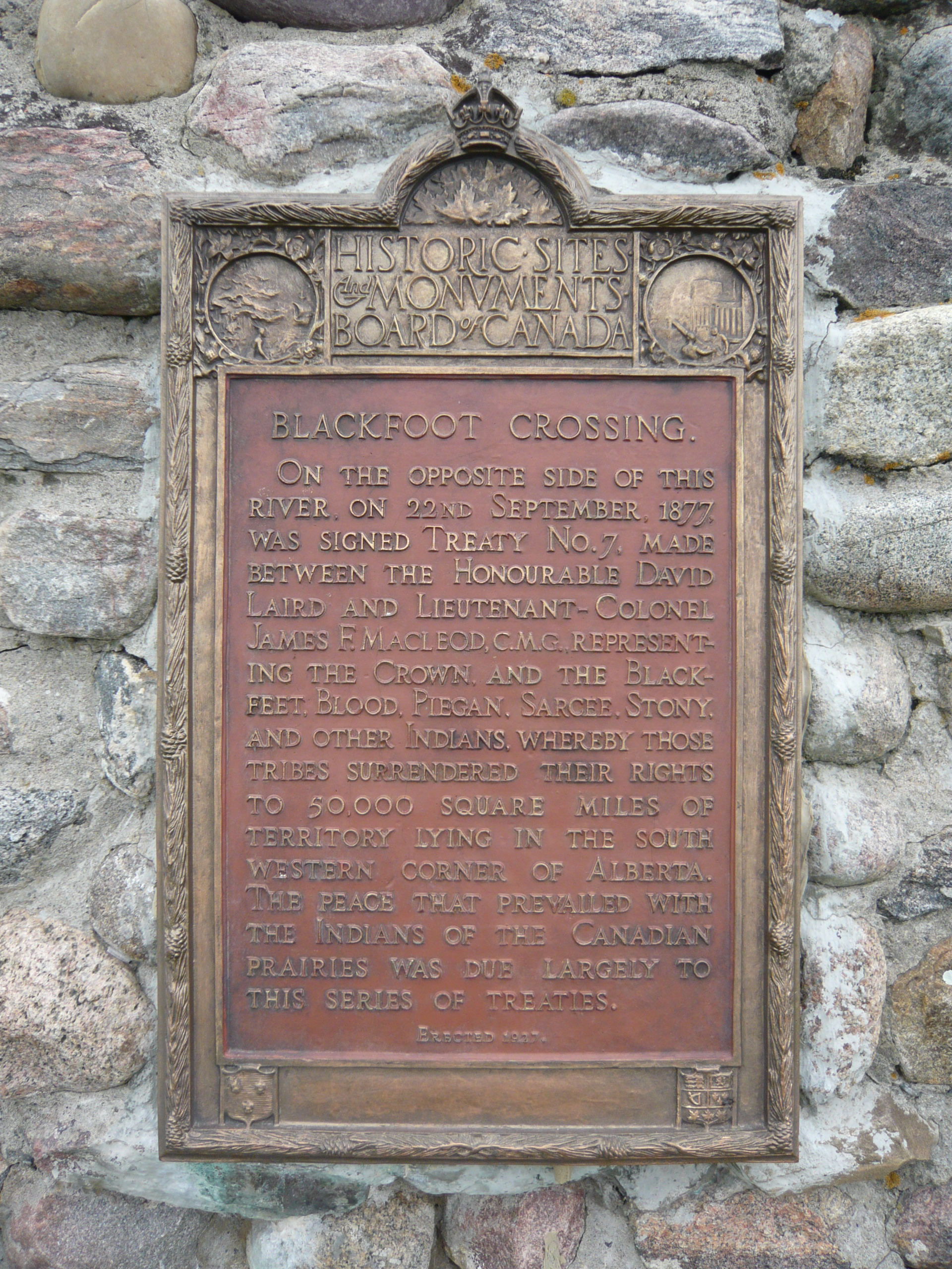 A replica Historic Sites and Monuments Board of Canada plaque for the Blackfoot Crossing, National Historic Site of Canada. The original plaque is in the Blackfoot Crossing Interpretive Center Museum and this plastic replica in at the original location that was commemorated in 1927